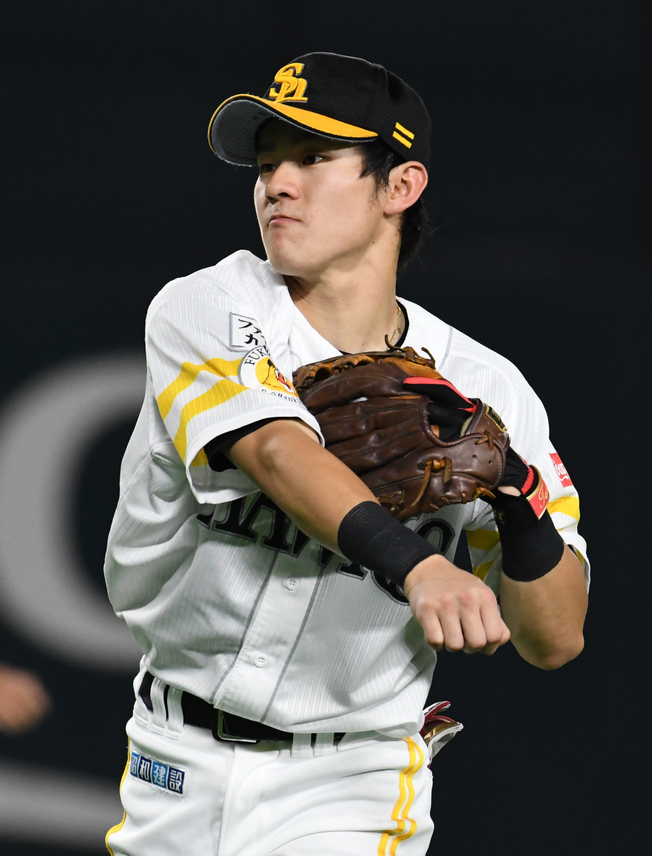 Taisei Makihara, infielder of the Fukuoka SoftBank Hawks, at Fukuoka Dome